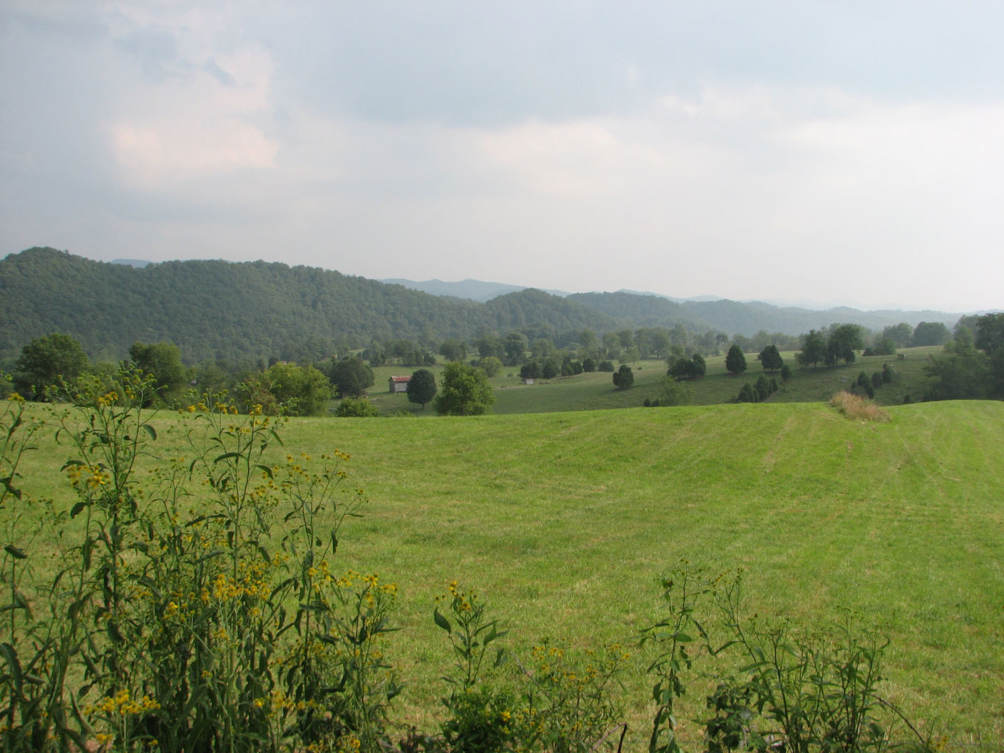 Photograph of Washington County off of Loves Mill RD by Friendship Baptist Church, near Wideners Valley